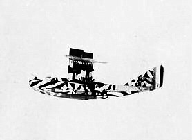 Felixstowe N4297 in flight.